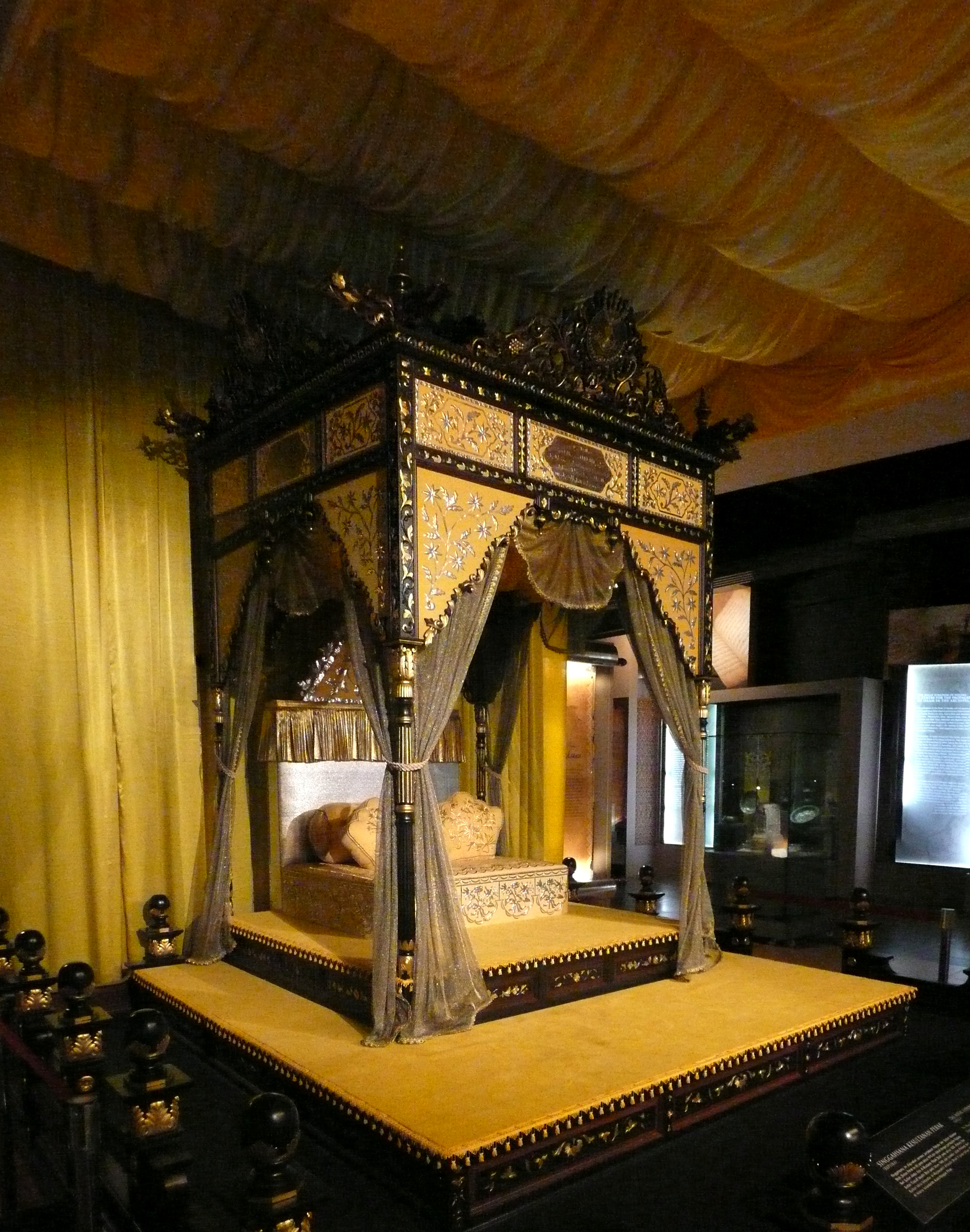 The Royal Throne of Perak (Replica). This royal throne has been used during the installation of His Royal Highness Sultan Iskandar Shah (the 30th Sultan of Perak) in 1918. Since then it was used during the installation of His Royal Highness Sultan Abdul Aziz Al-Mustasim Bilah Shah in 1938. His Royal Highness Sultan Yussuff Izzudin Shah in 1948 and His Royal Highness Sultan Idris Iskandar Al-Mutawakkil Shah II in 1963 in Istana Iskandariah, Kuala Kangsar, Perak.